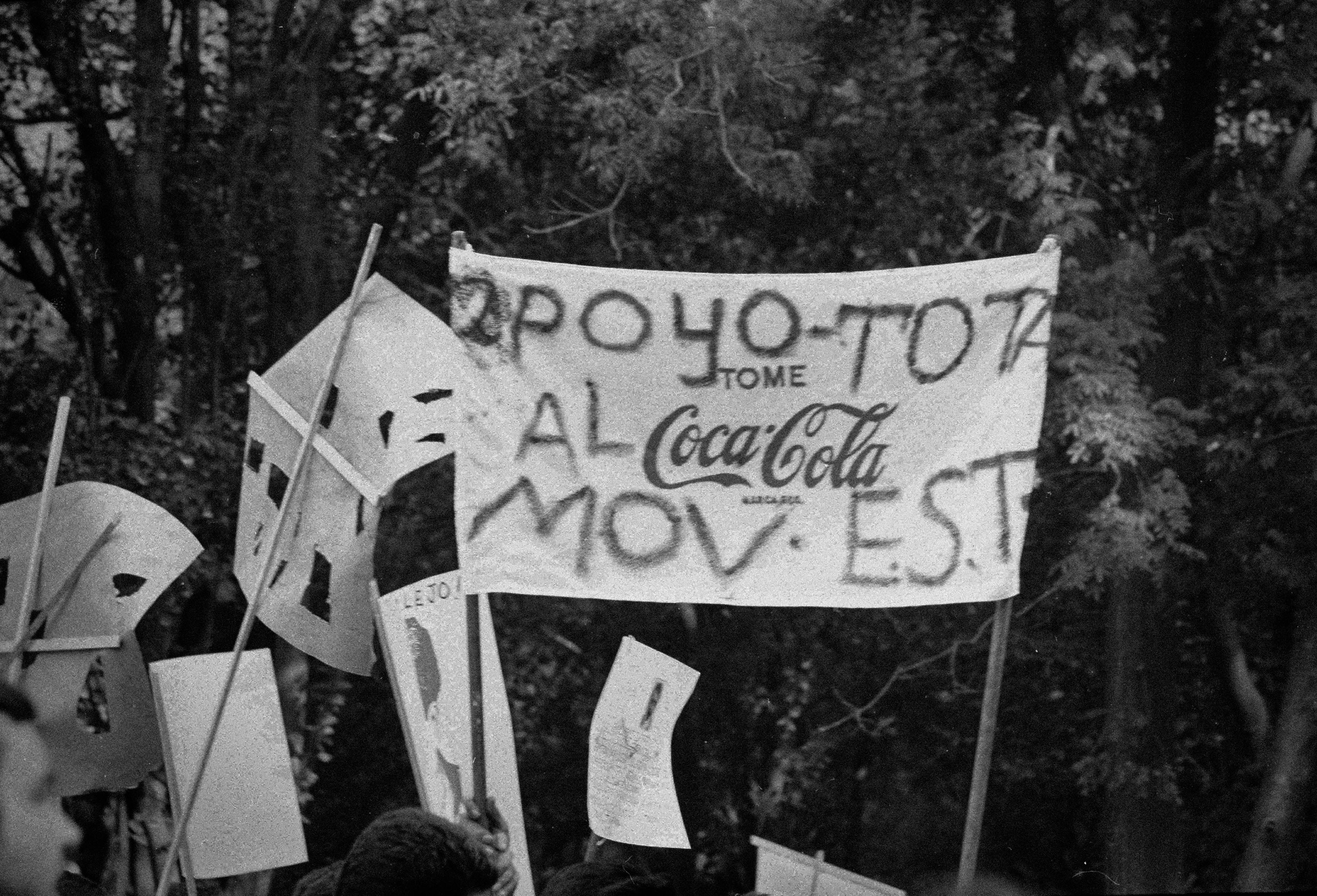 Images of Mexico City Student Movement, October 1968.